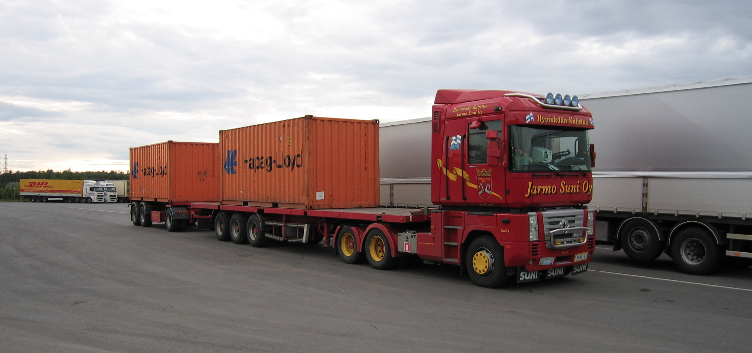 Finnish a-train combination hauling two 20' containers. Combination running at maximum GVW of 60 tonnes and is pulled by 480hp Renault Magnum tractor unit. Tractor unit is 6x2 and is equipped with liftable tag axle to reduce tyre wear and to get better grip when running light or empty. In this picture there is normal European artic (semi-trailer in US) into which a short a-frame drawbar trailer (full trailer) is coupled. This kind of outfit is considered illegal in Finland after 2007.